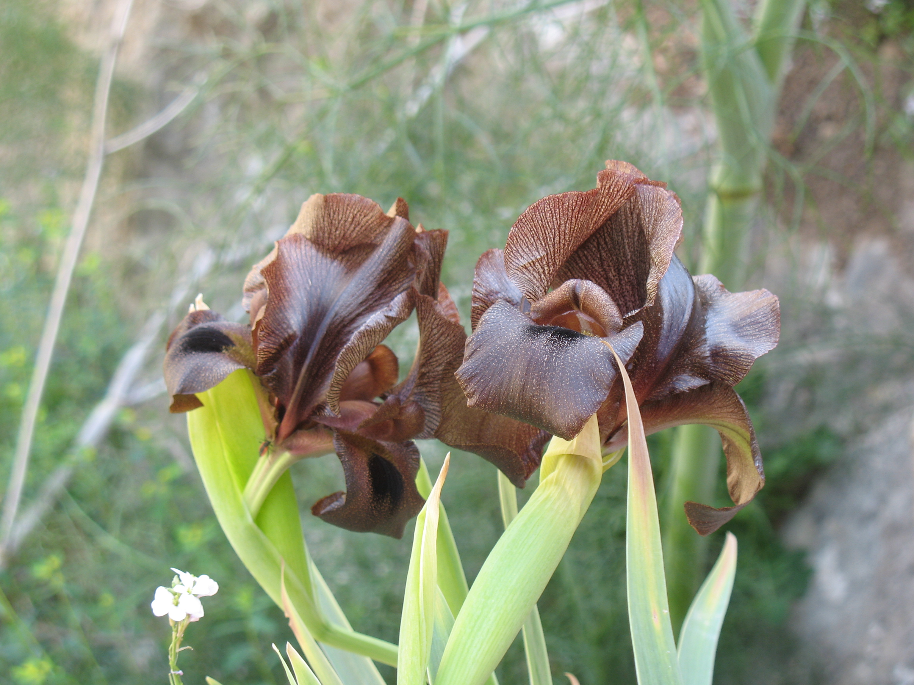 אירוסים שחומים בנחל תקוע, מרץ 2011 Iris loessicola (Iris atrofusca Baker) blooming in Tekoa Wadi nature reserve, Israel.